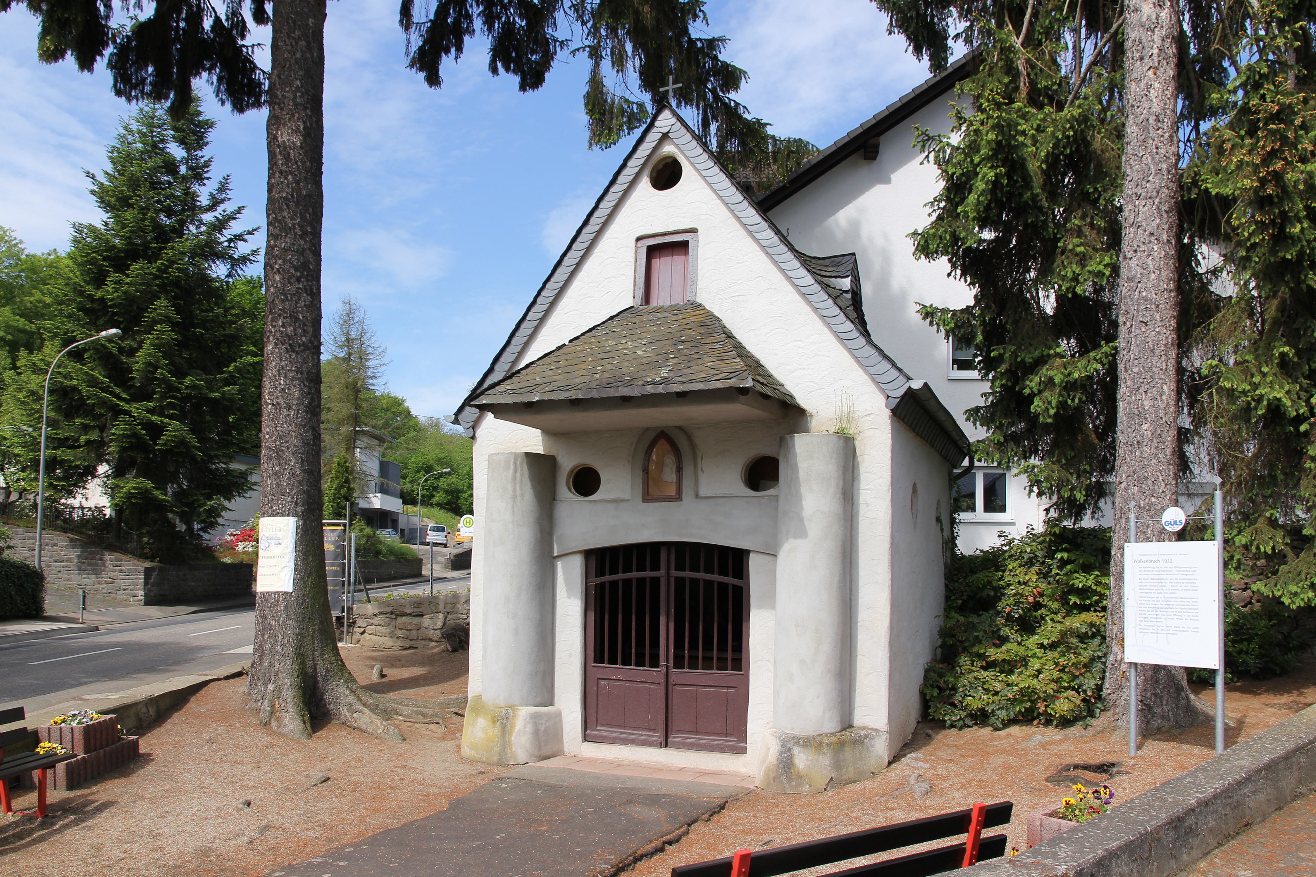 Trinity chapel in Koblenz